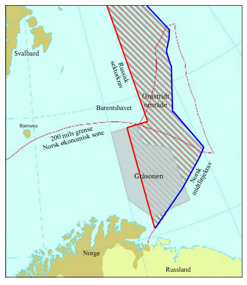 The Norwegian and Russian positions on maritime boundaries in the Barents Sea